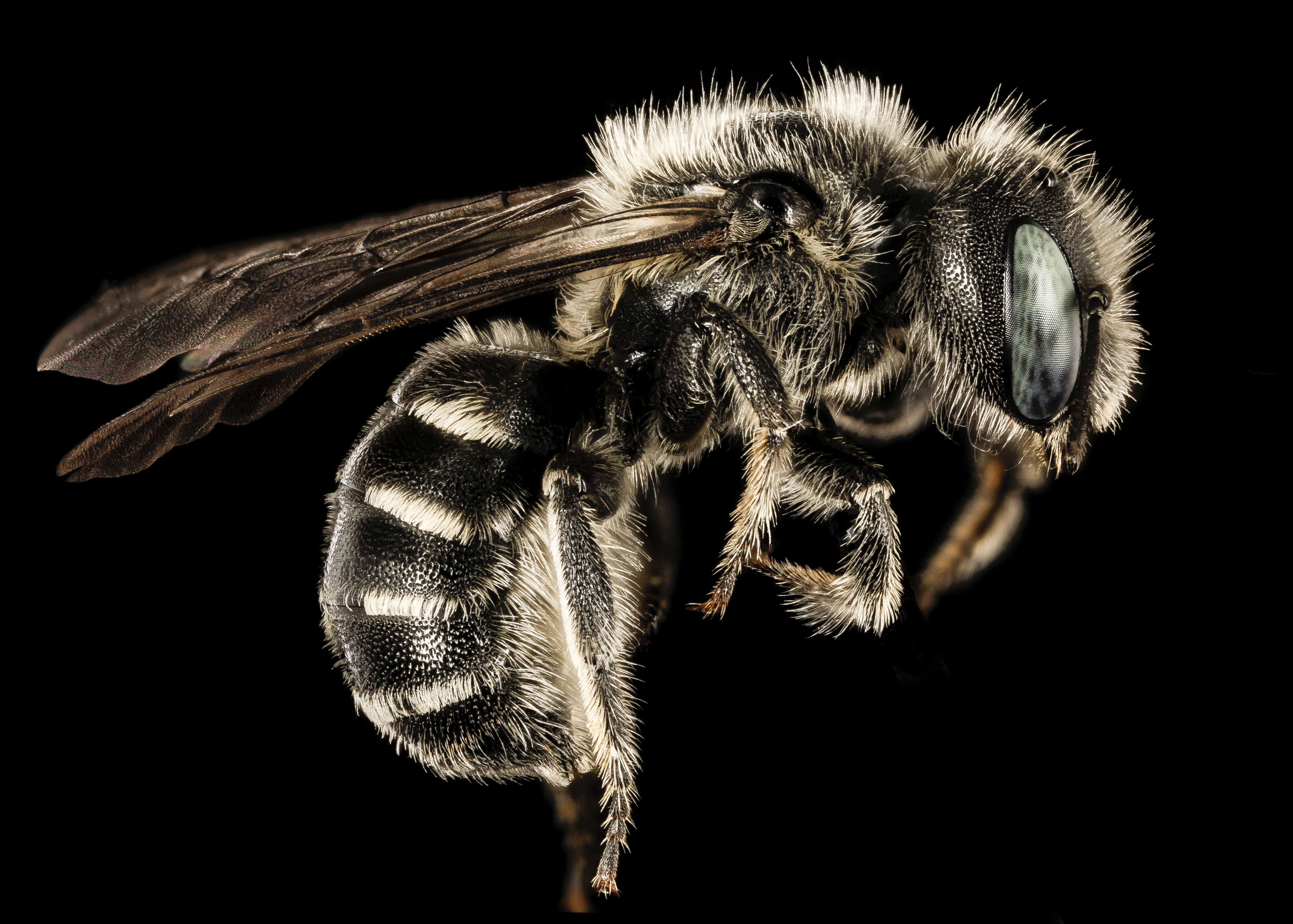 The Blue-eyed Bee. Hoplitis pilosifrons. One of the Megachilidae...they tuck pollen under their abdomen to carry to their nests rather than on their legs like the classic honey bee model. Collected at Eastern Neck National Wildlife Refuge ...a refuge not created for bees, but now embracing their bee communities with plantings and management. 20:48, 29 May 2015 (UTC)20:48, 29 May 2015 (UTC) 0 20:48, 29 May 2015 (UTC)20:48, 29 May 2015 (UTC) All photographs are public domain, feel free to download and use as you wish. Photography Information: Canon Mark II 5D, Zerene Stacker, Stackshot Sled, 65mm Canon MP-E 1-5X macro lens, Twin Macro Flash in Styrofoam Cooler, F5.0, ISO 100, Shutter Speed 200 Beauty is truth, truth beauty - that is all Ye know on earth and all ye need to know " Ode on a Grecian Urn" John Keats You can also follow us on Instagram account USGSBIML Want some Useful Links to the Techniques We Use? Well now here you go Citizen: Basic USGSBIML set up: USGSBIML Photoshopping Technique: Note that we now have added using the burn tool at 50% opacity set to shadows to clean up the halos that bleed into the black background from "hot" color sections of the picture. PDF of Basic USGSBIML Photography Set Up: ftp://ftpext.usgs.gov/pub/er/md/laurel/Droege/How%20to%20Take%20MacroPhotographs%20of%20Insects%20BIML%20Lab2.pdf Google Hangout Demonstration of Techniques: or Excellent Technical Form on Stacking: Contact information: Sam Droege 301 497 5840